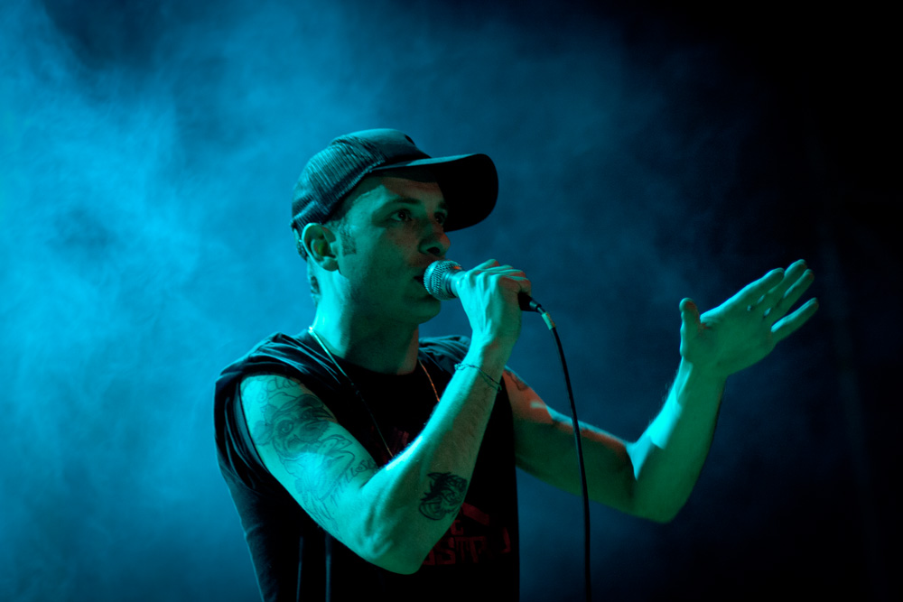 Clementino opens a concert of the italian group 99 Posse in Bagnoli (April 27, 2012).